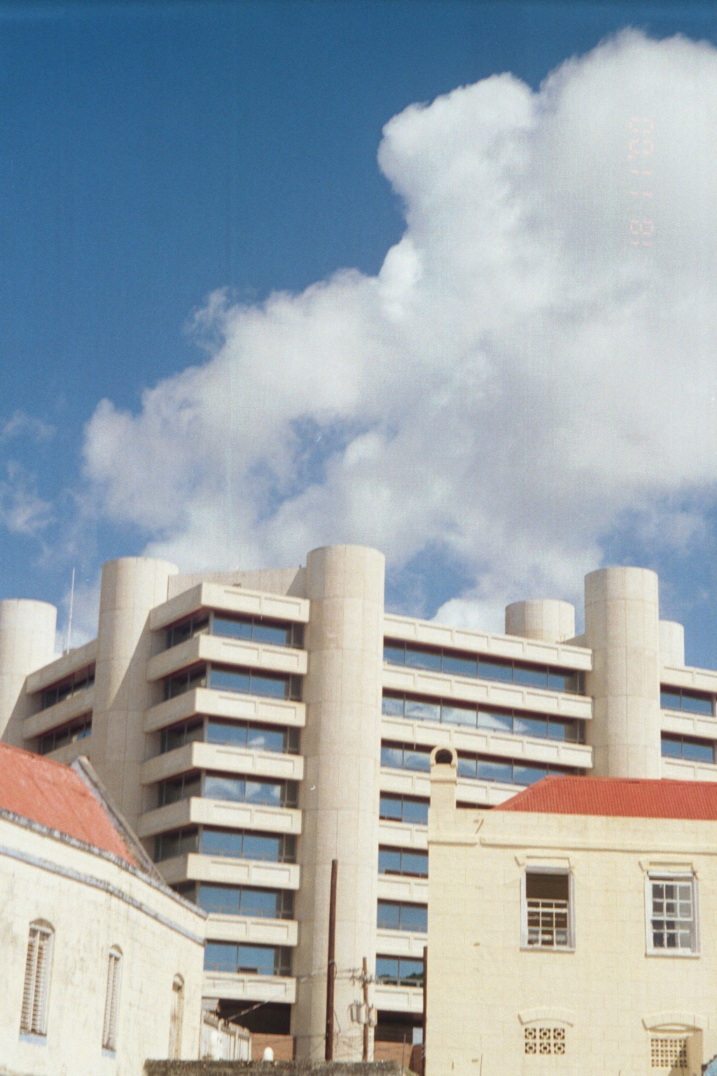 Close-up of the Central Bank of Barbados building, located in the city of Bridgetown. (c.a. November 2000)